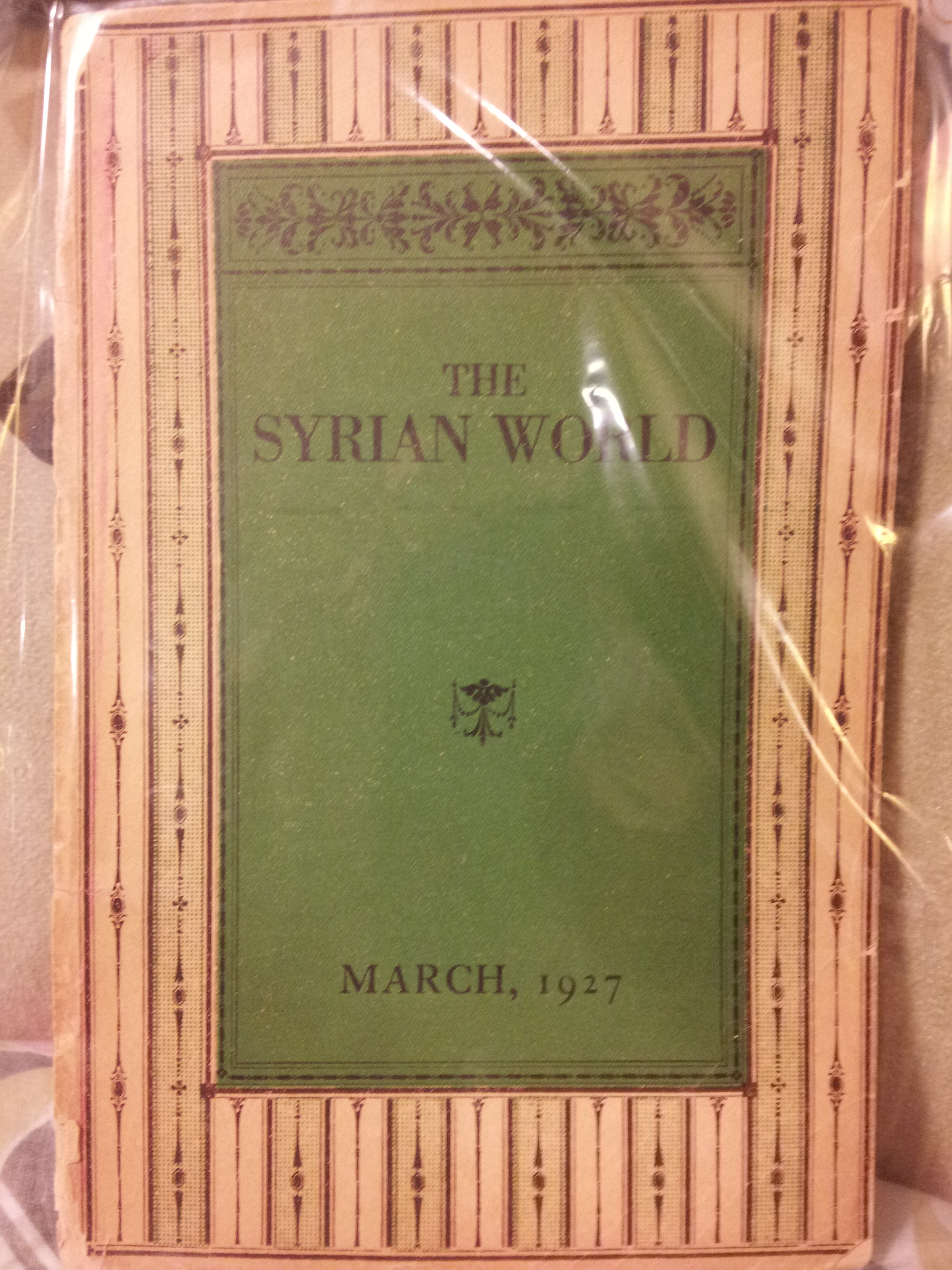 Magazine cover of The Syrian World. March 1927 issue.